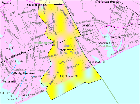 U.S. Census 2000 reference map for Sagaponack